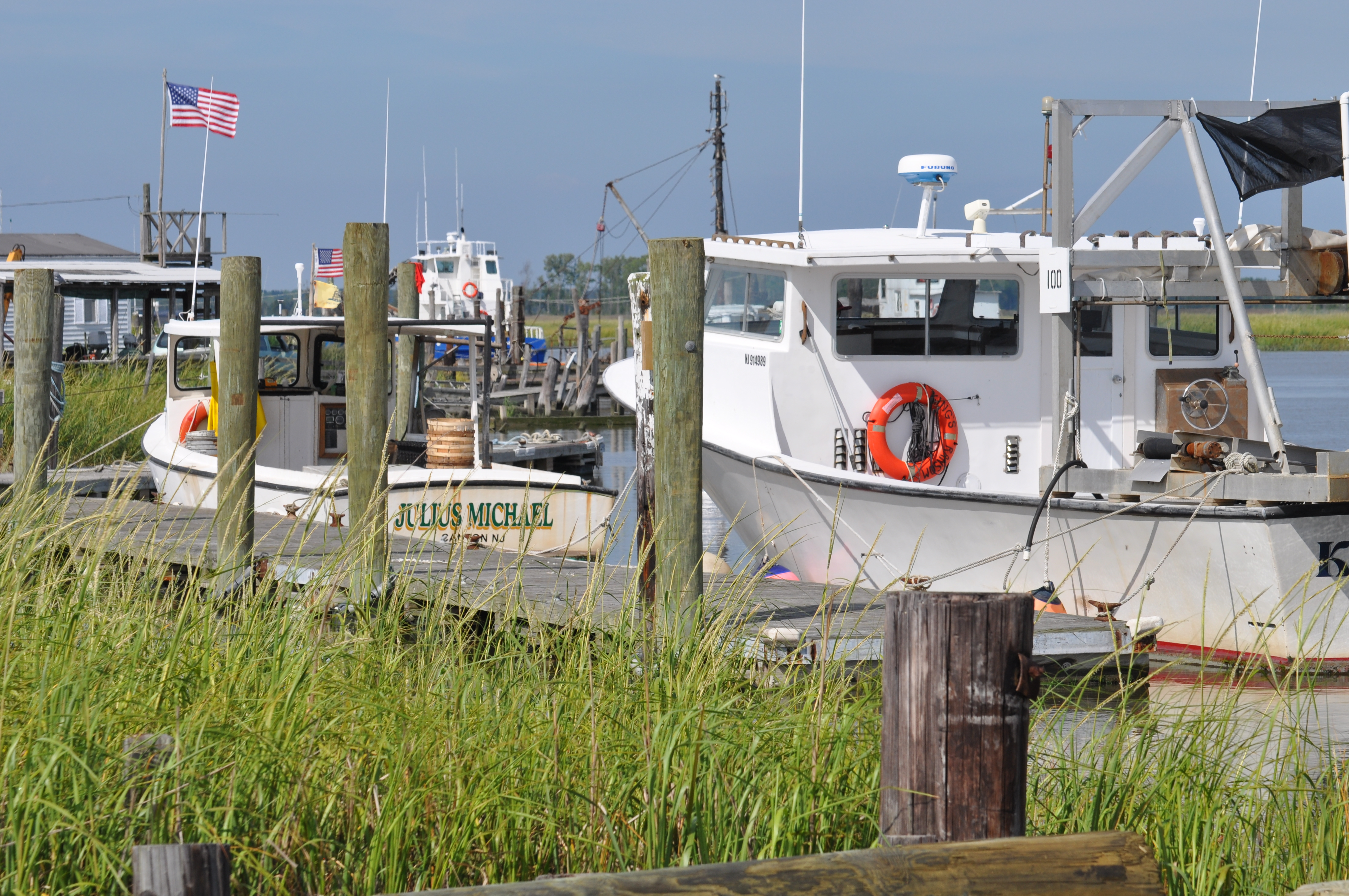 A photograph of commercial boat docks at Money Island New Jersey